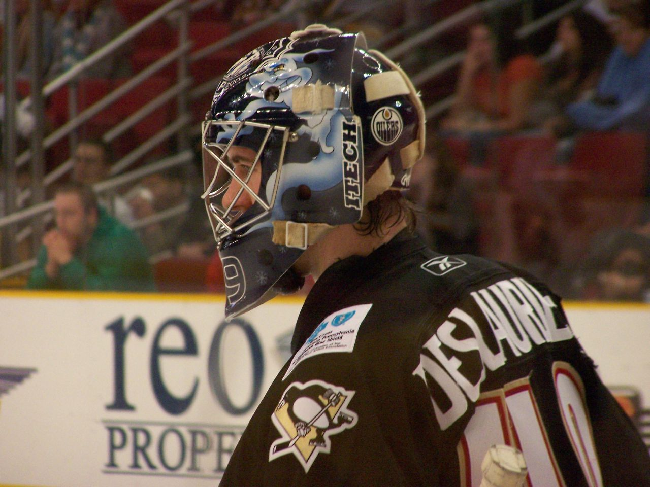 Jeff Drouin-Deslauriers, ice hockey goaltender of Wilkes-Barre/Scranton Penguins in game vs. Providence Bruins